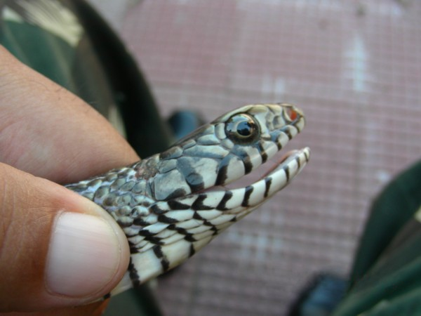 Indian Rat Snake Ptyas mucosus Family Colubridae, Serpentes Image of head with mouth open. Photographed at Binnaguri, North Bengal, India.